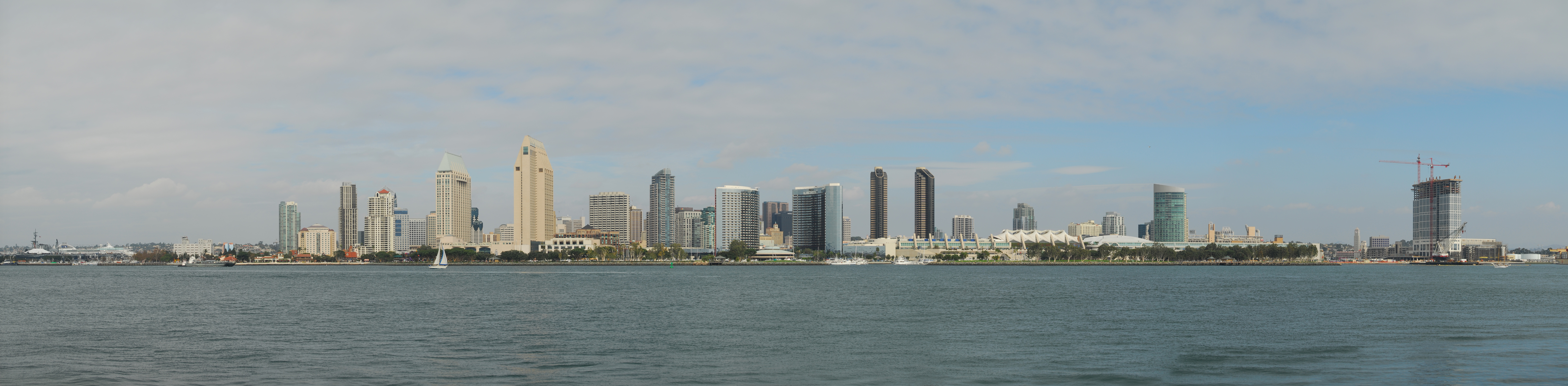 The Skyline of Downtown San Diego, California, US, during daytime. Seen from Coronado Island, in November 2007.